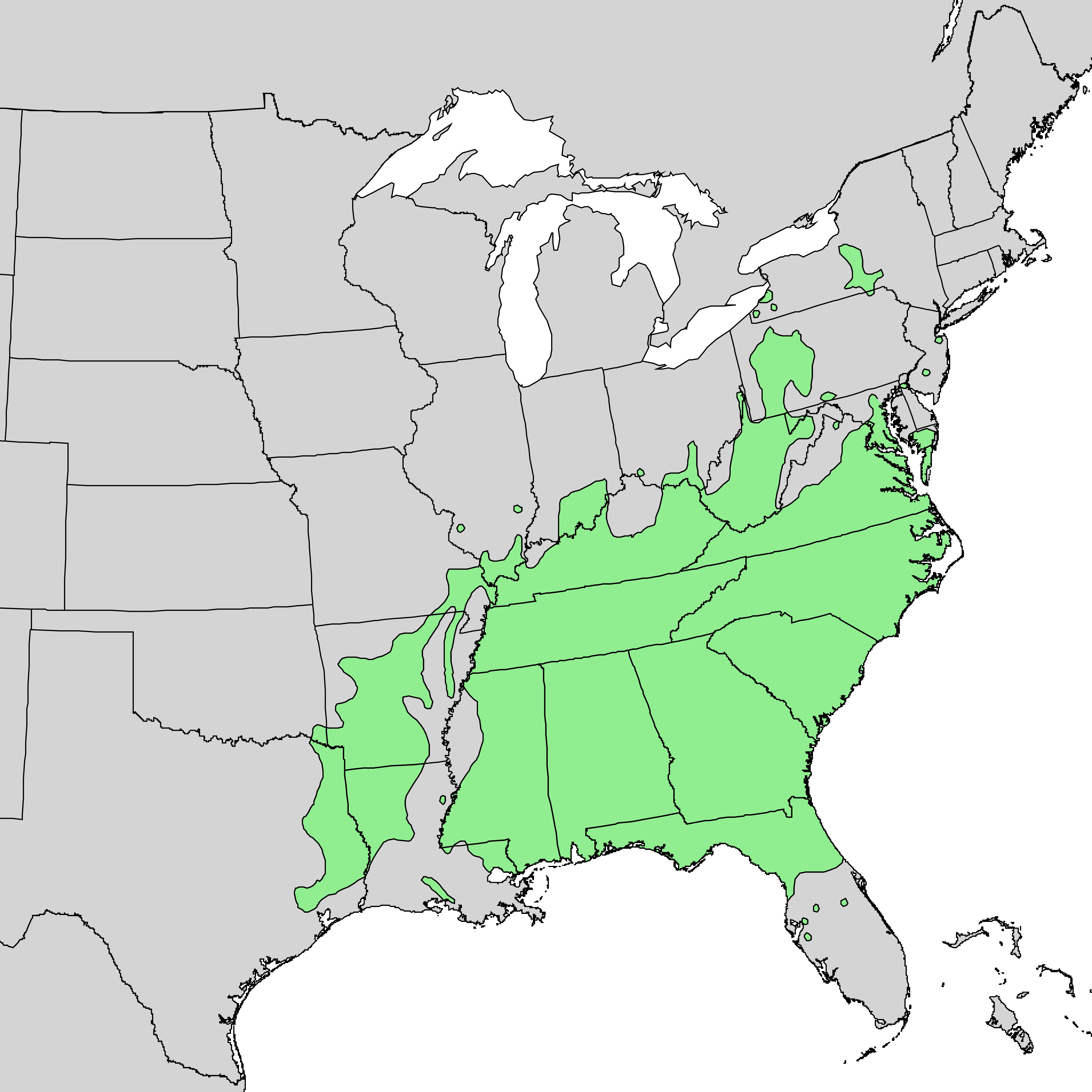 Natural distribution map for ssss